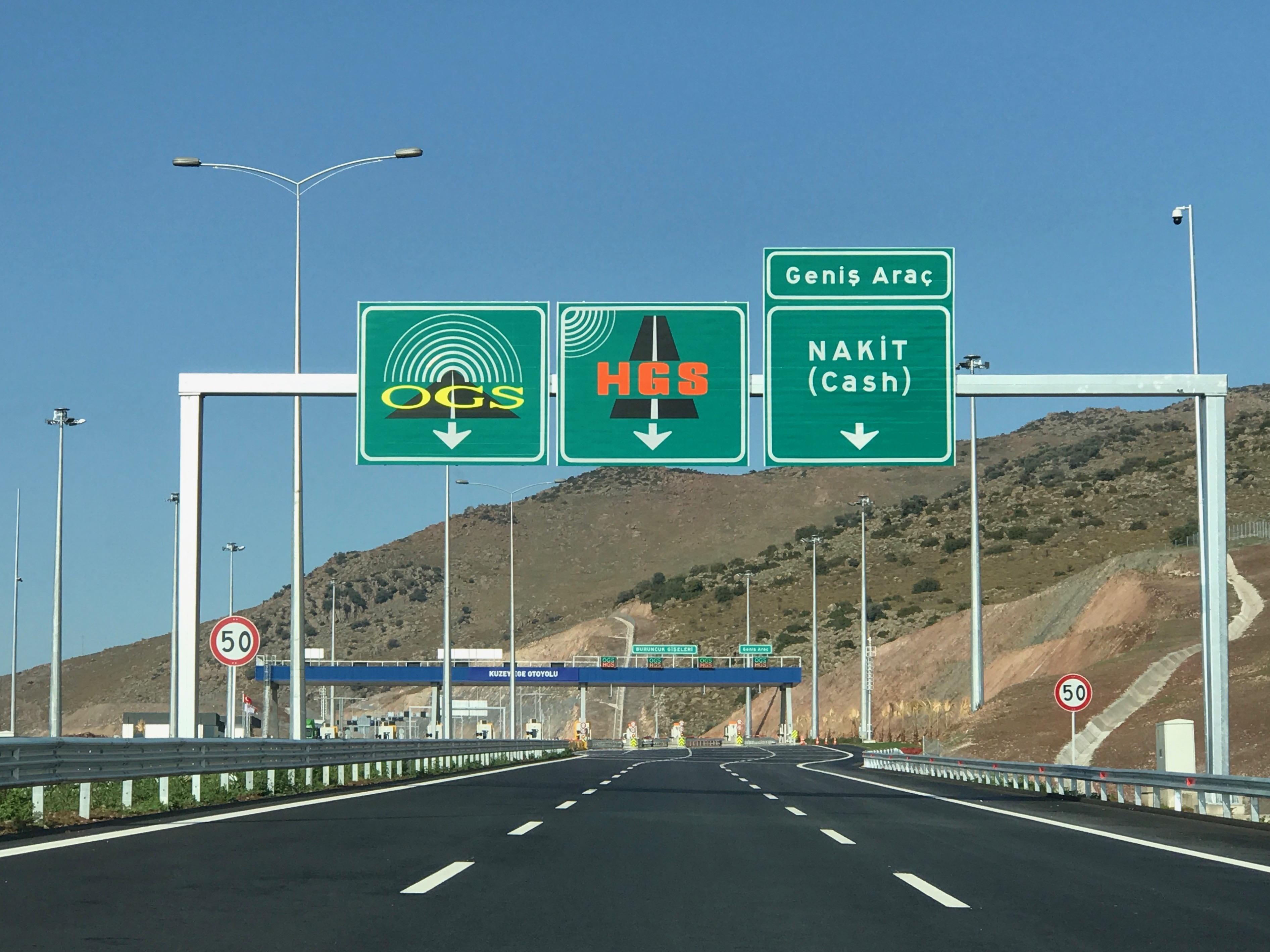 Buruncuk Toll Plaza on Otoyol 33 near Yanıkköy neighbourhood of Menemen in İzmir, Turkey.